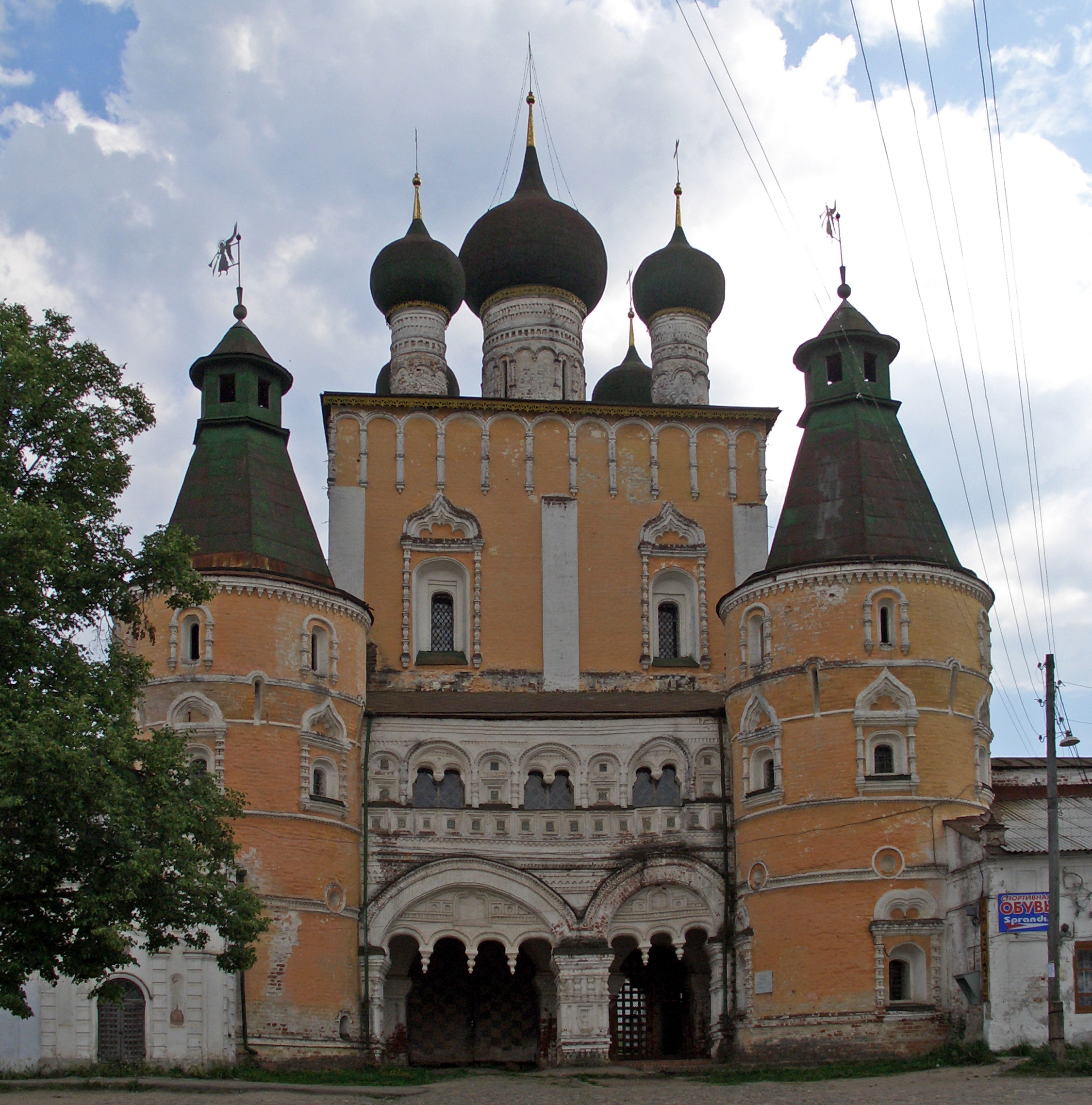 Presentation Sretenskaya Church, Borisoglebsky monastery, Borisoglebsky, Yaroslavl region